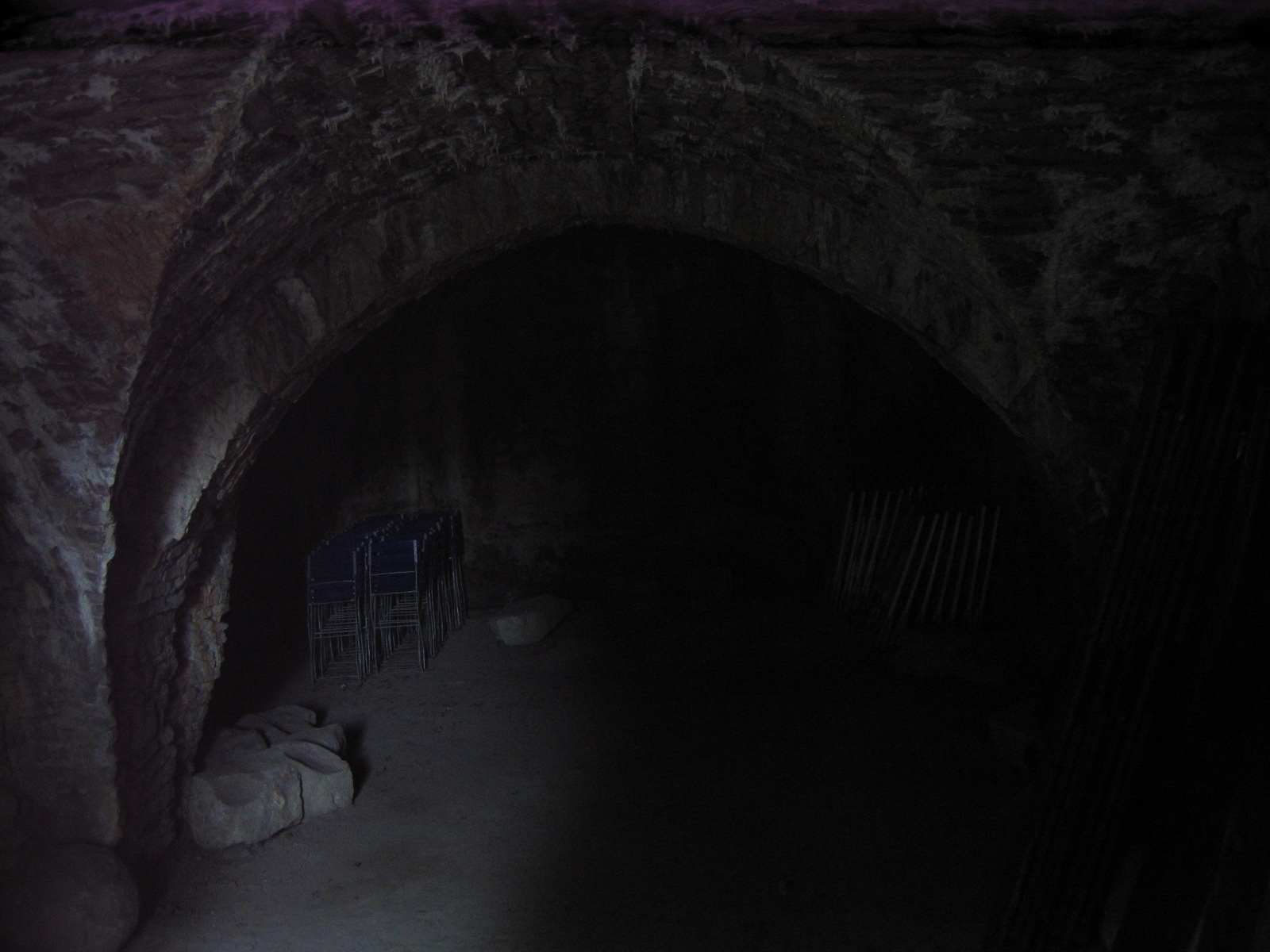 Ruin of Vlotho castle in Vlotho, District of Herford, North Rhine-Westphalia, Germany.